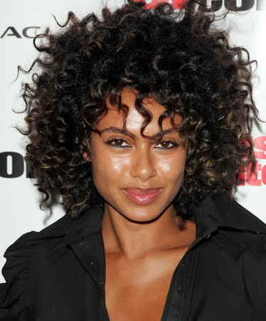 Picture of Judy Baldwin